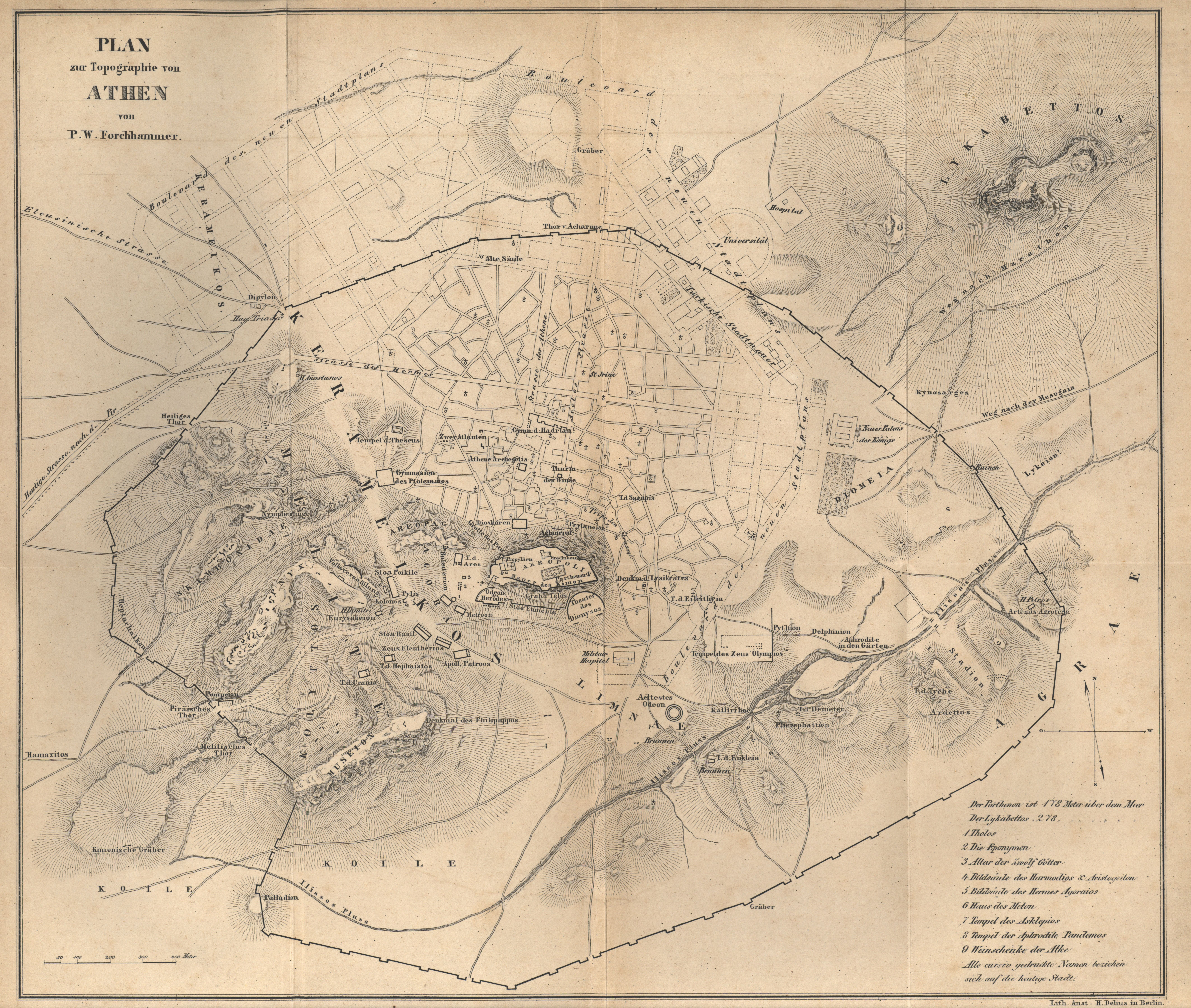 Map of the ancient city of Athens. From: P. W. Forchhammer (1801-1894): Topographie von Athen. In: Kieler philologische Studien. Kiel: Schwer'sche Buchhandlung, 1841. Scanned from the original in possession of Trier University Library by Bibhai